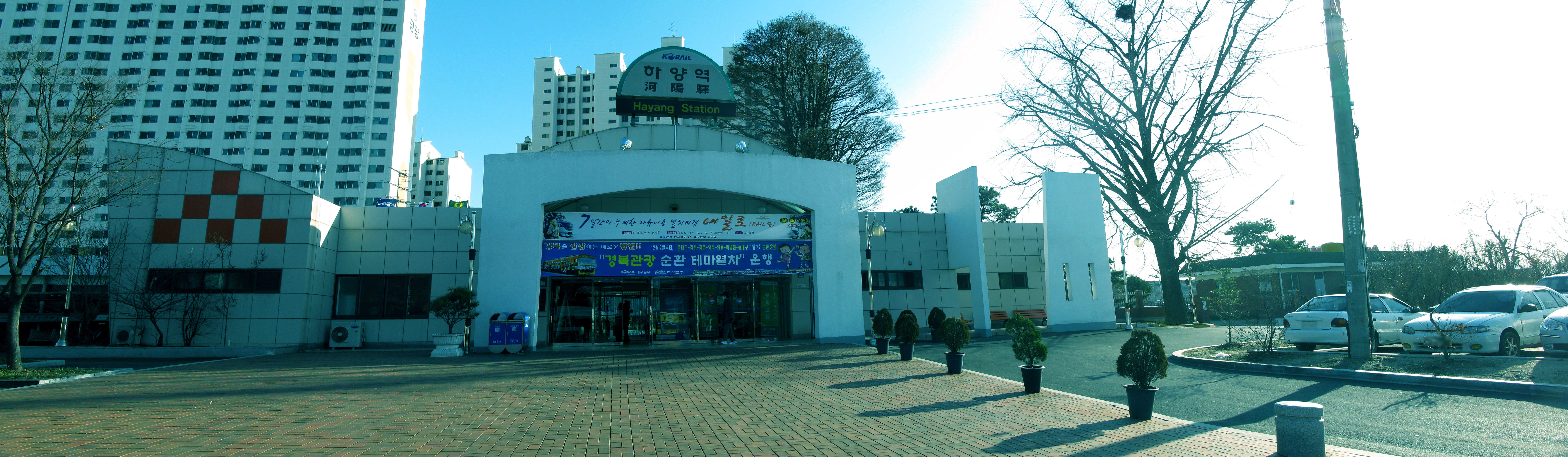 Daegu Line Hayang Station